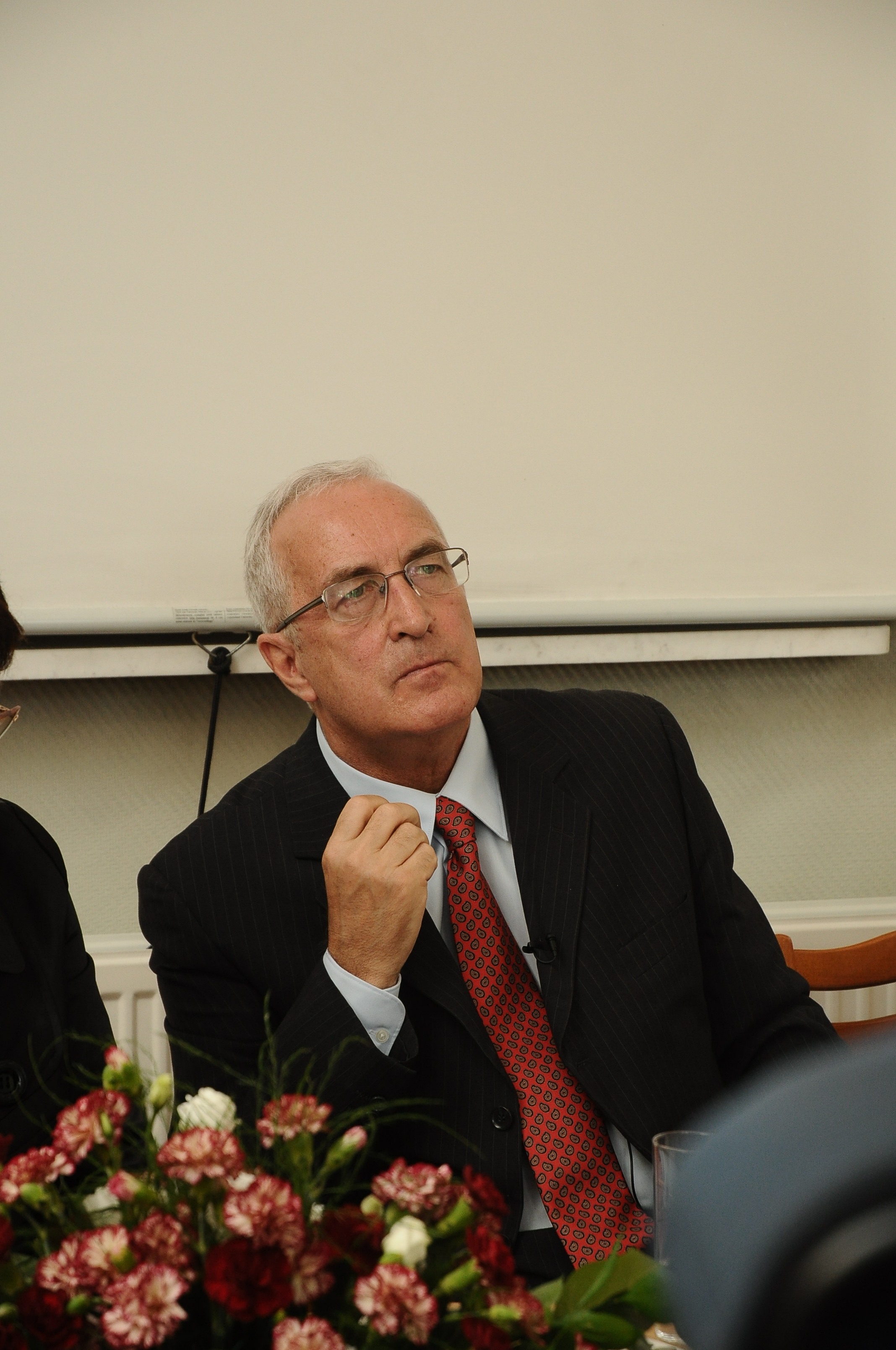 prof alexander skotnicki